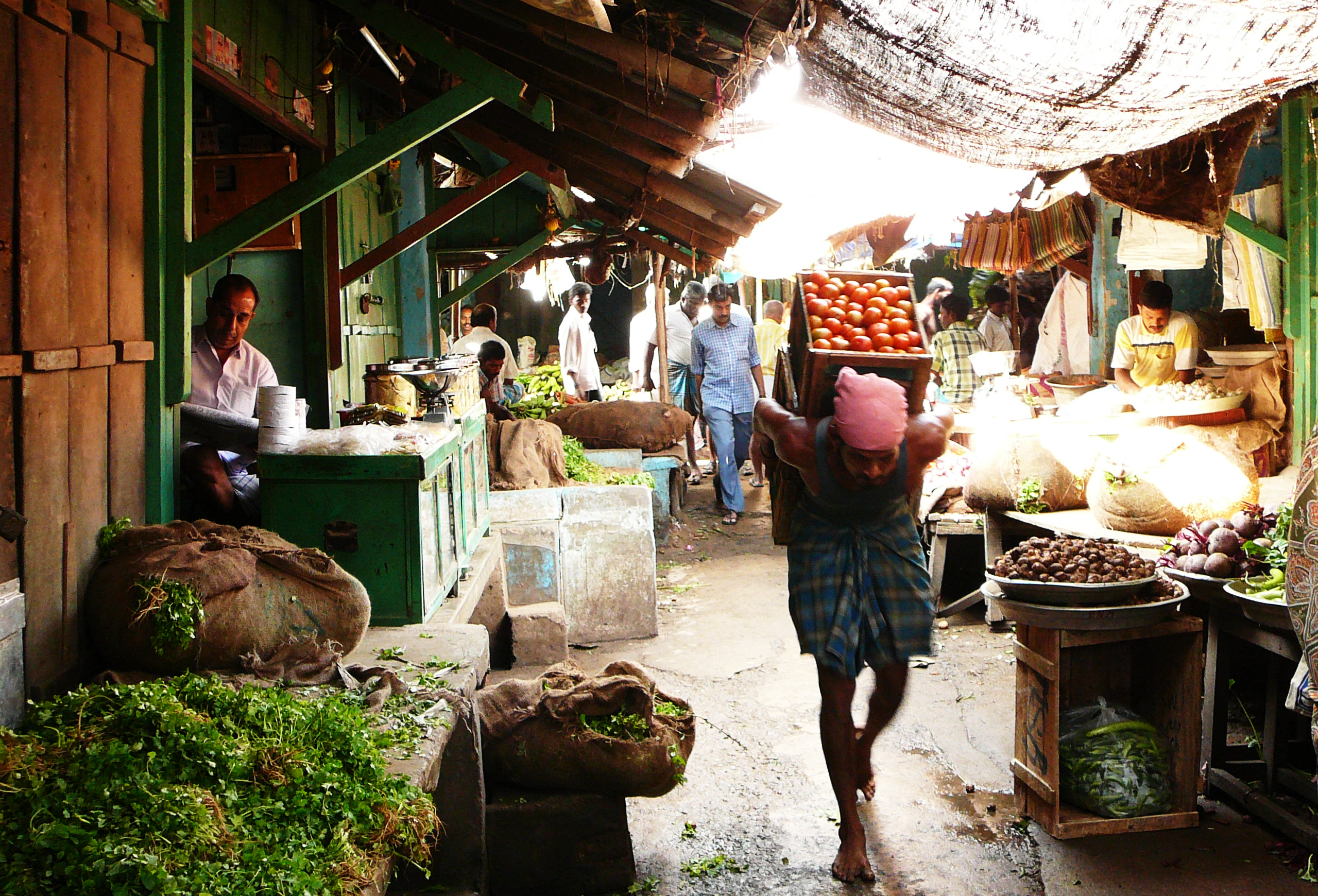 Picture Taken in Saidapet market in the morning when the market gets ready for the customers